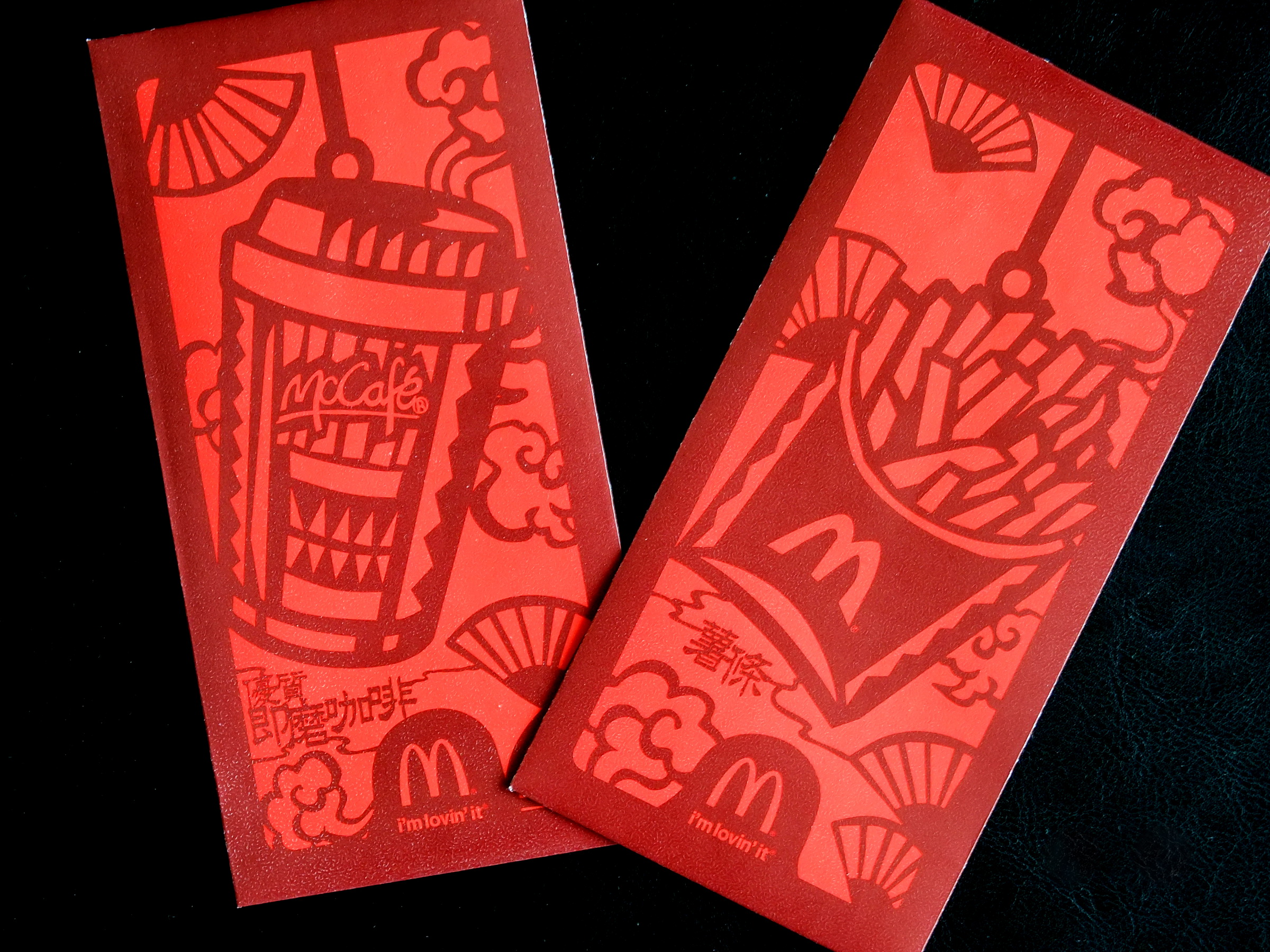 Red packets from McDonald's restaurant.